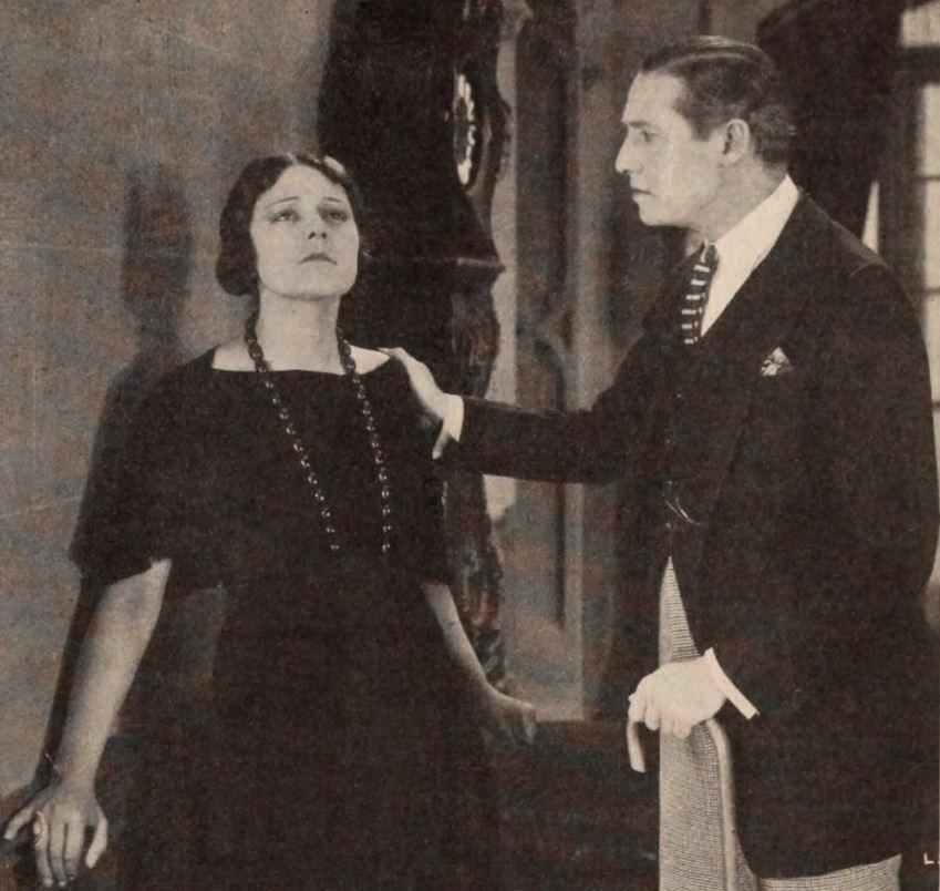 Still from the American drama film Behold My Wife! (1920) with Mabel Julienne Scott and Elliott Dexter, on page 97 of the October 23, 1920 Exhibitors Herald.